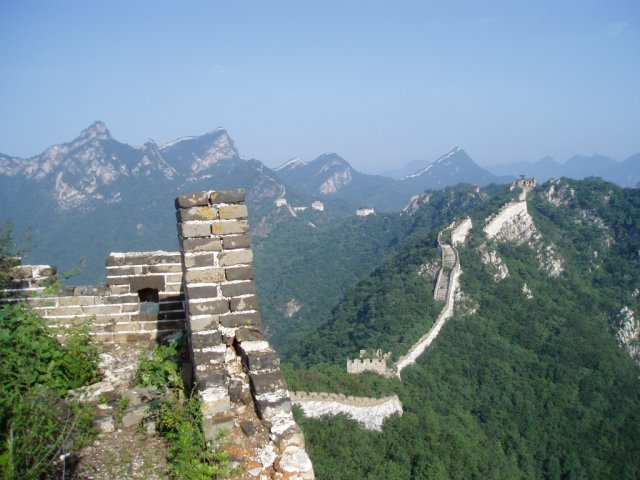 This is a portion of the Great Wall of China, somewhere in a rural area of China, seen from a point on the wall.